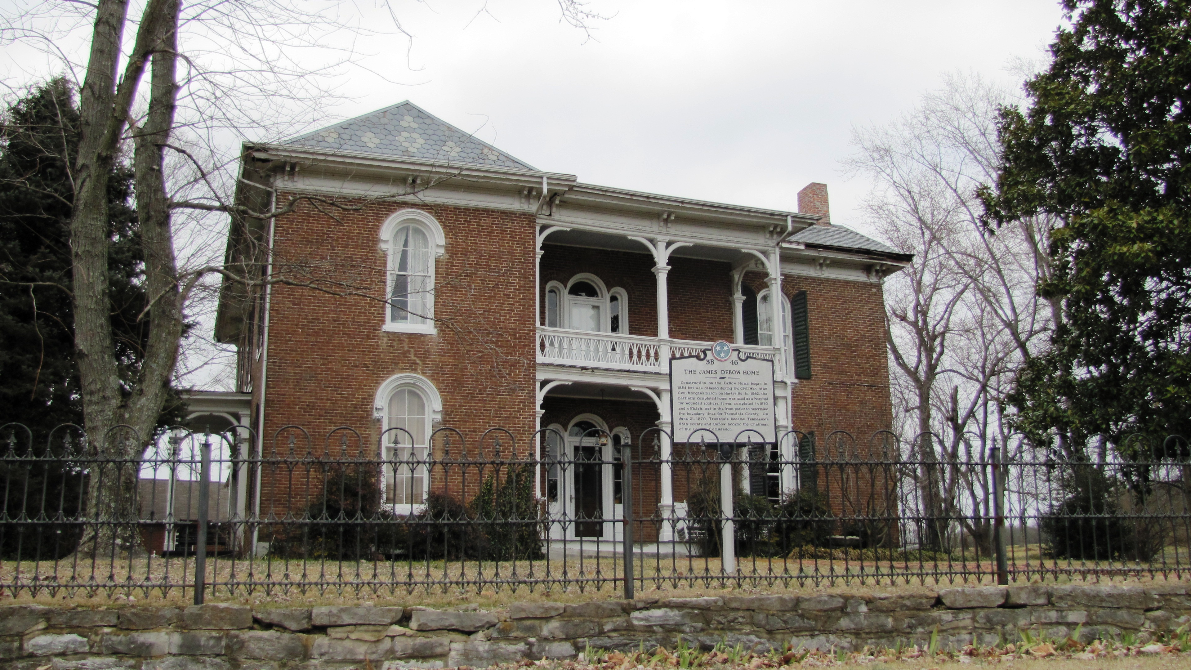 The James DeBow House in Hartsville, Tennessee, USA. The house was built between 1854 and 1870, with its construction interrupted by the Civil War.